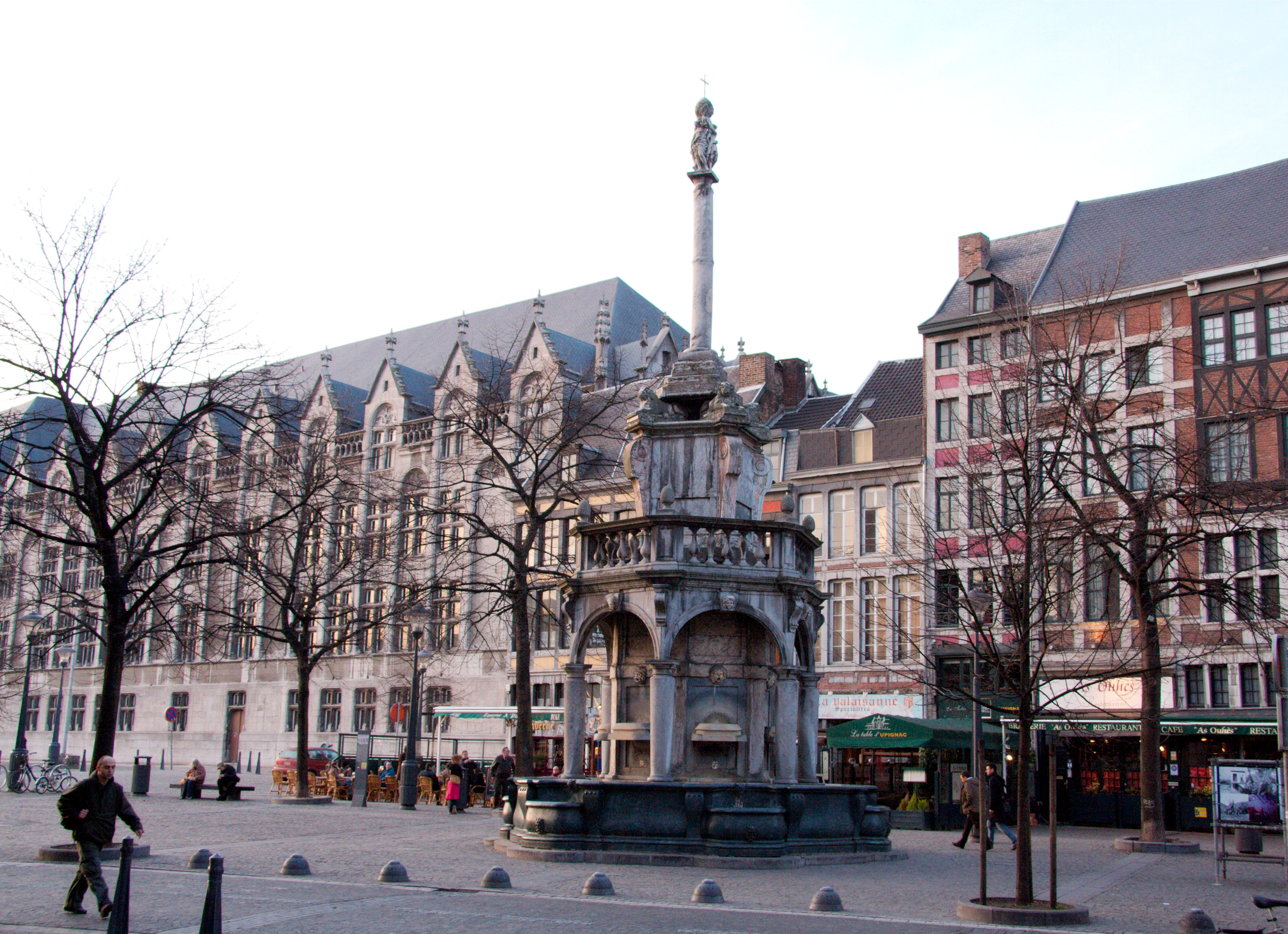 The perron and its fountain, by sculptor Jean Del Cour in Liège (Belgium).